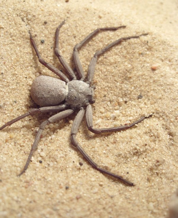 A female Sicarius levii.